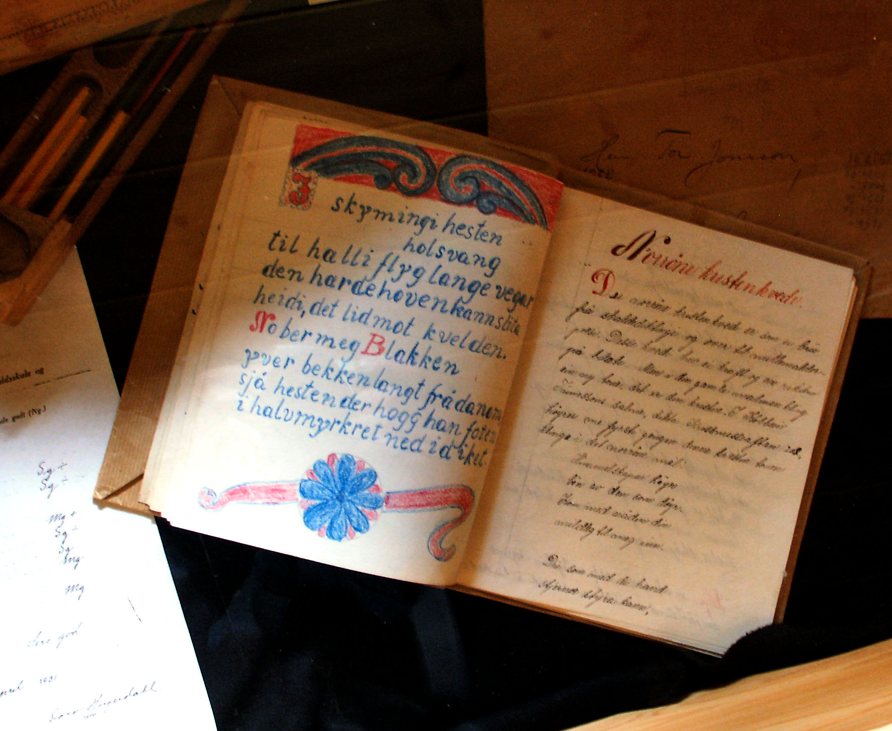 Notebook from scool, pencils and grades for the Norwegian poet Tor Jonsson.